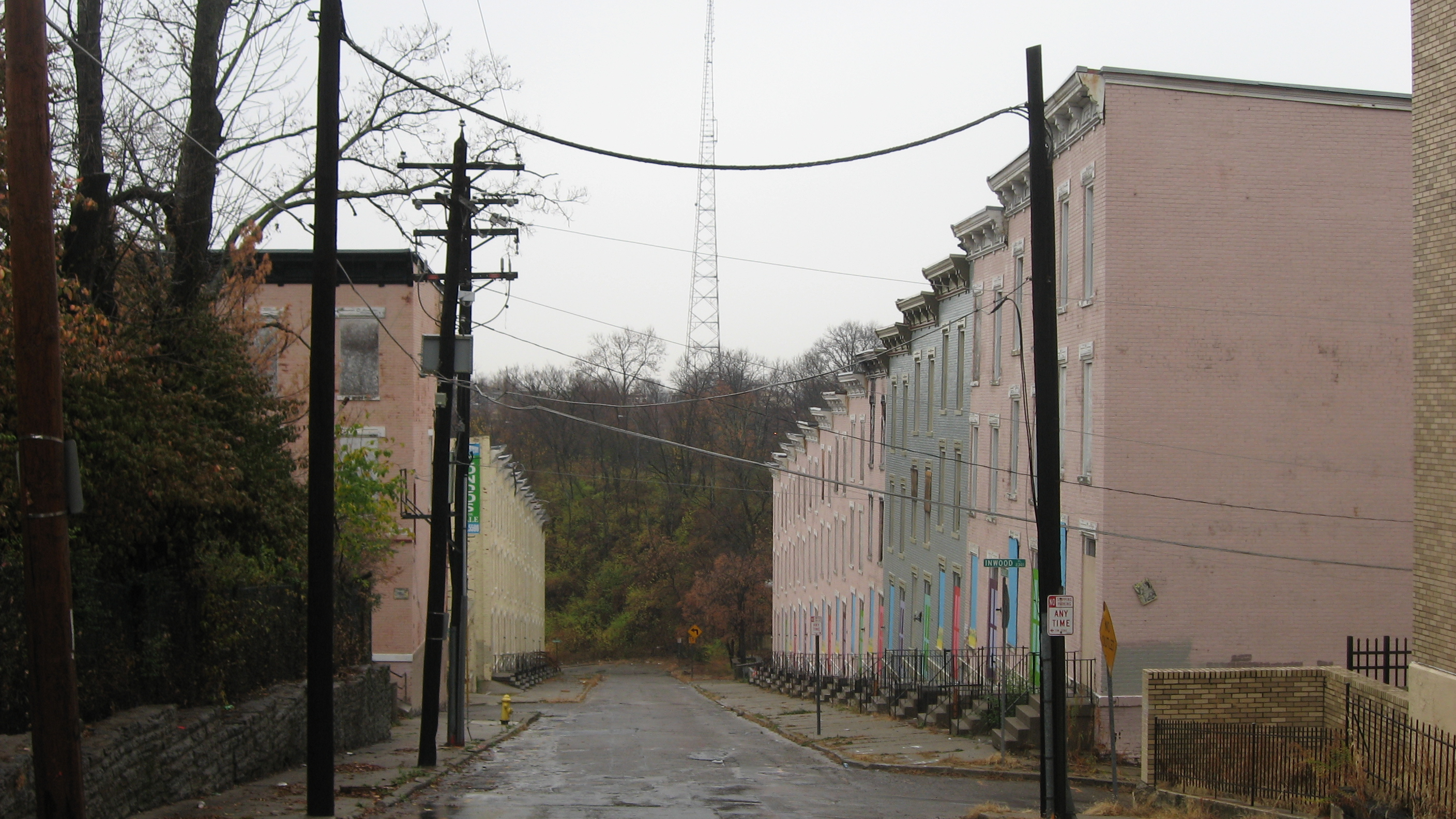 Looking westward down Glencoe Place in the Mount Auburn neighborhood of Cincinnati, Ohio, United States. Located on both sides of the street, the Glencoe-Auburn Place Row Houses built in 1884 and are listed on the National Register of Historic Places.